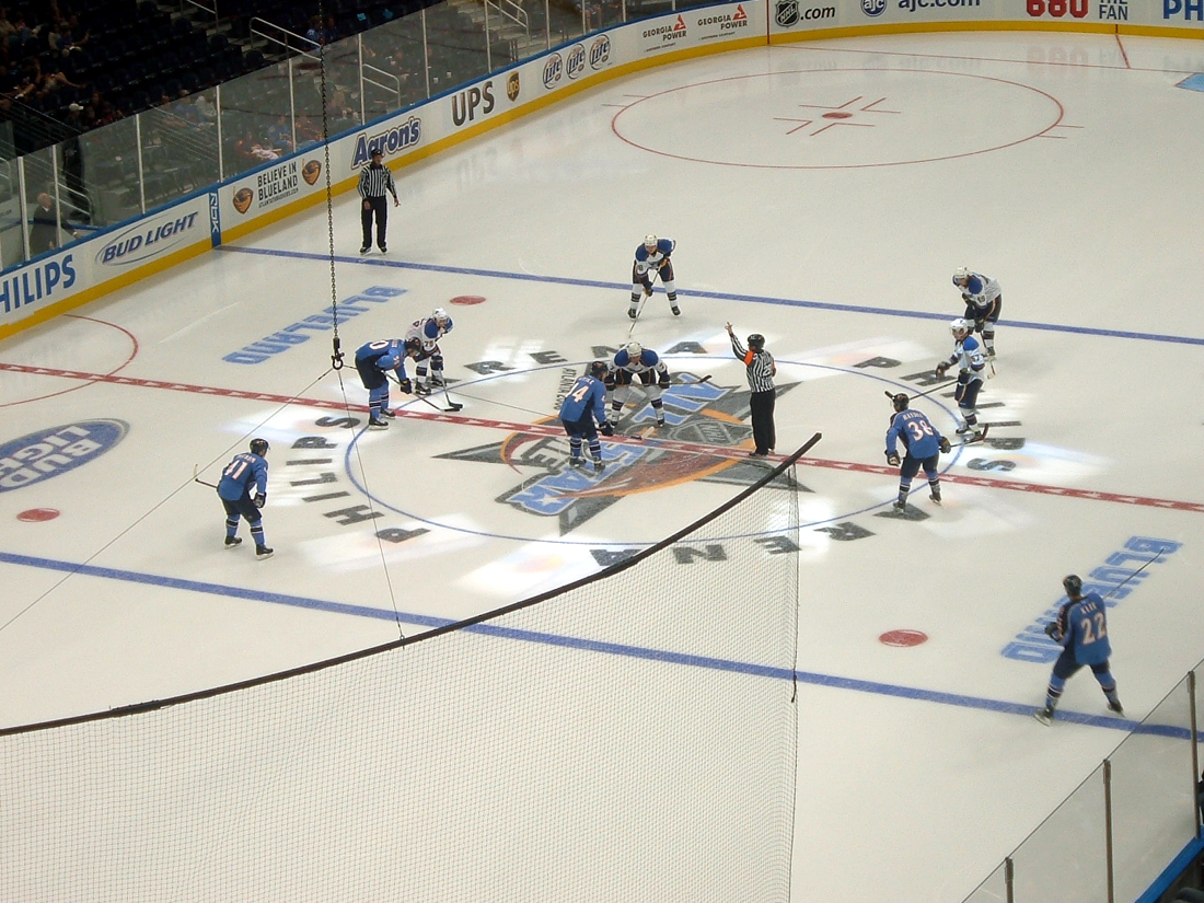 Faceoff at a Thrashers game